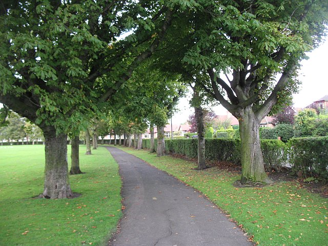 Zetland Park A horse chestnut avenue beside Abbotsgrange Road.